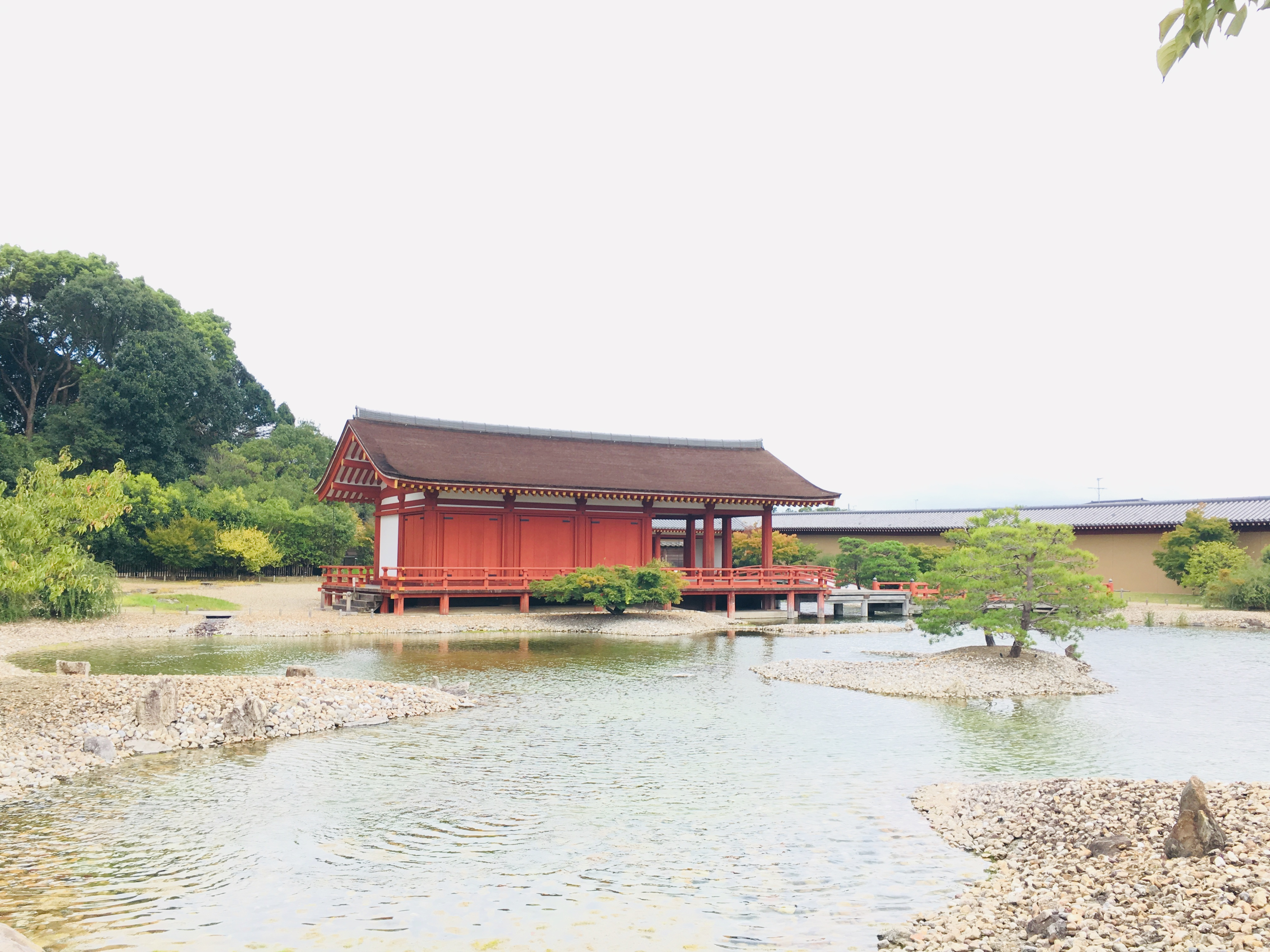 Nara East Palace Gardens. AKA Toin Gardens (東院庭園)